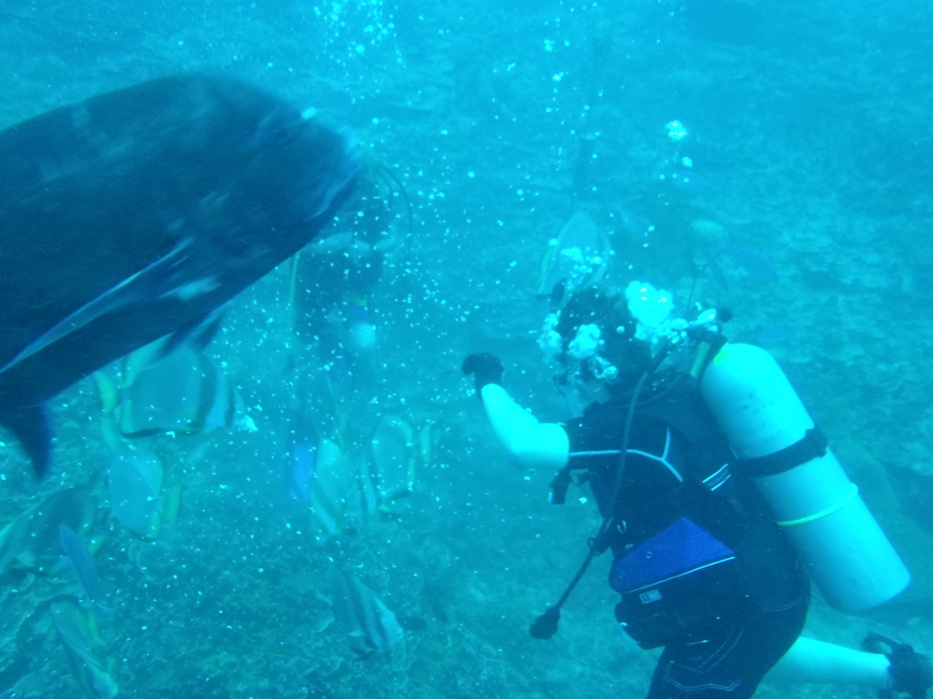 Scuba diver and giant trevally meet at Gab Gab II reef